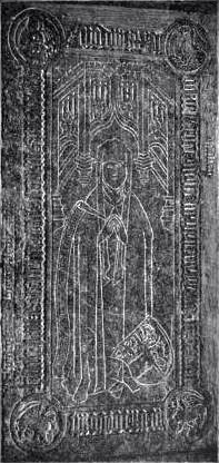 Grave stone of Dorothea von Brandenburg (1420–1491), duchess of Mecklenburg, in Gadebusch church